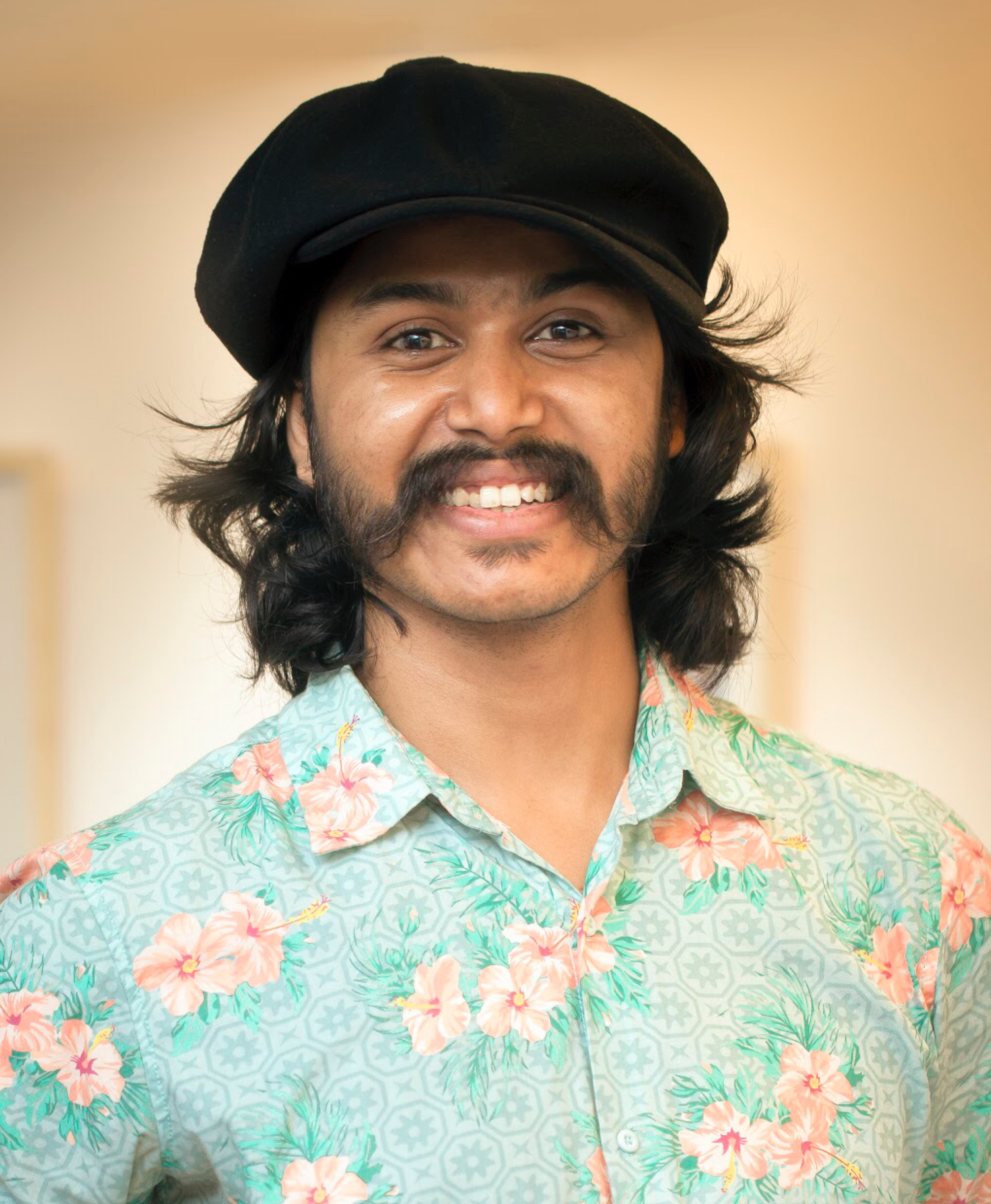 Abdulla -Al- Morshed also known as Morshed Mishu is a Bangladeshi cartoonist, illustrator and wall/graffiti artist.